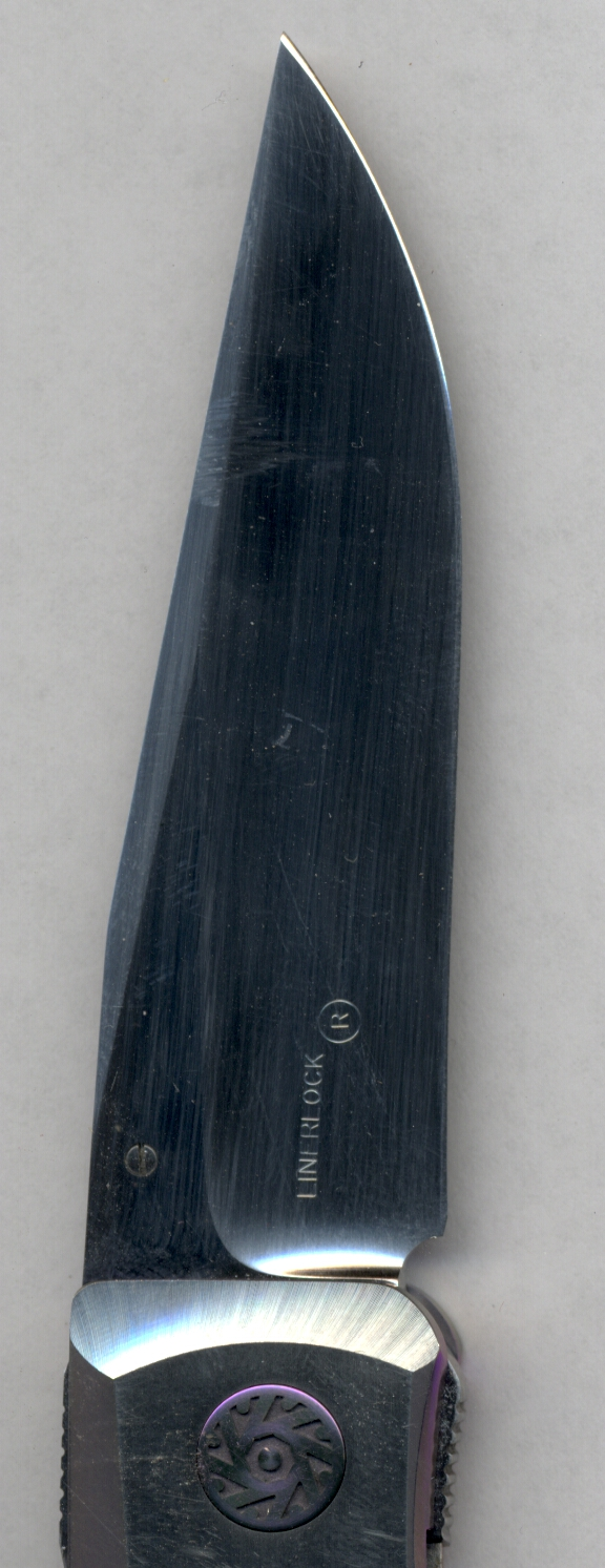 Closeup image of Linerlock Registered Trademark on an original Michael Walker Knife.